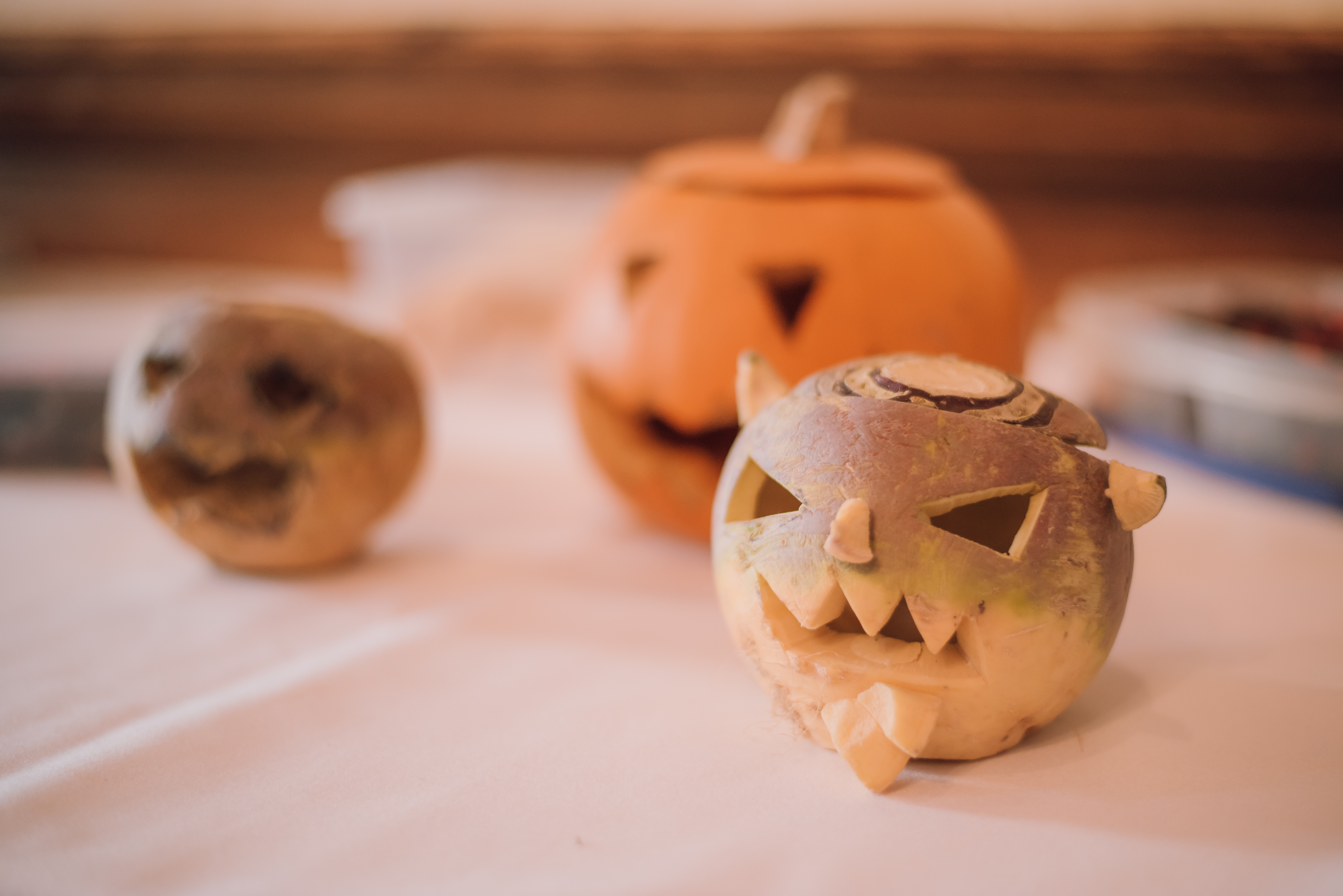 Samhuinn is a Gaelic festival marking the end of the harvest season and the beginning of winter or the "darker half" of the year. Traditionally, it is celebrated from the very beginning of one Celtic day to its end, or in the modern calendar, from sunset on 31 October to sunset on 1 November. Samhuinn was seen as a liminal time, when the boundary between this world and the Otherworld could more easily be crossed. This meant the Aos Sí, the 'spirits' or 'fairies', could more easily come into our world. Offerings of food and drink were left outside for them. The souls of the dead were also thought to revisit their homes seeking hospitality. For Samhuinn 2016, the afternoon's editathon at the University of Edinburgh focused on improving the quality of Wikipedia articles relating to notable lives unearthed from newspaper obituary articles.